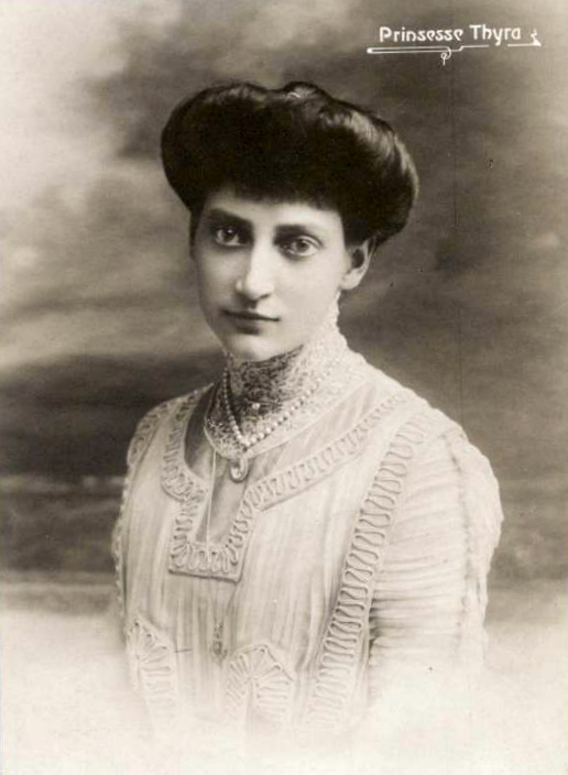 Princess Thyra of Denmark (1880–1945), daughter of Frederick VIII of Denmark and Princess Louise of Sweden and Norway.